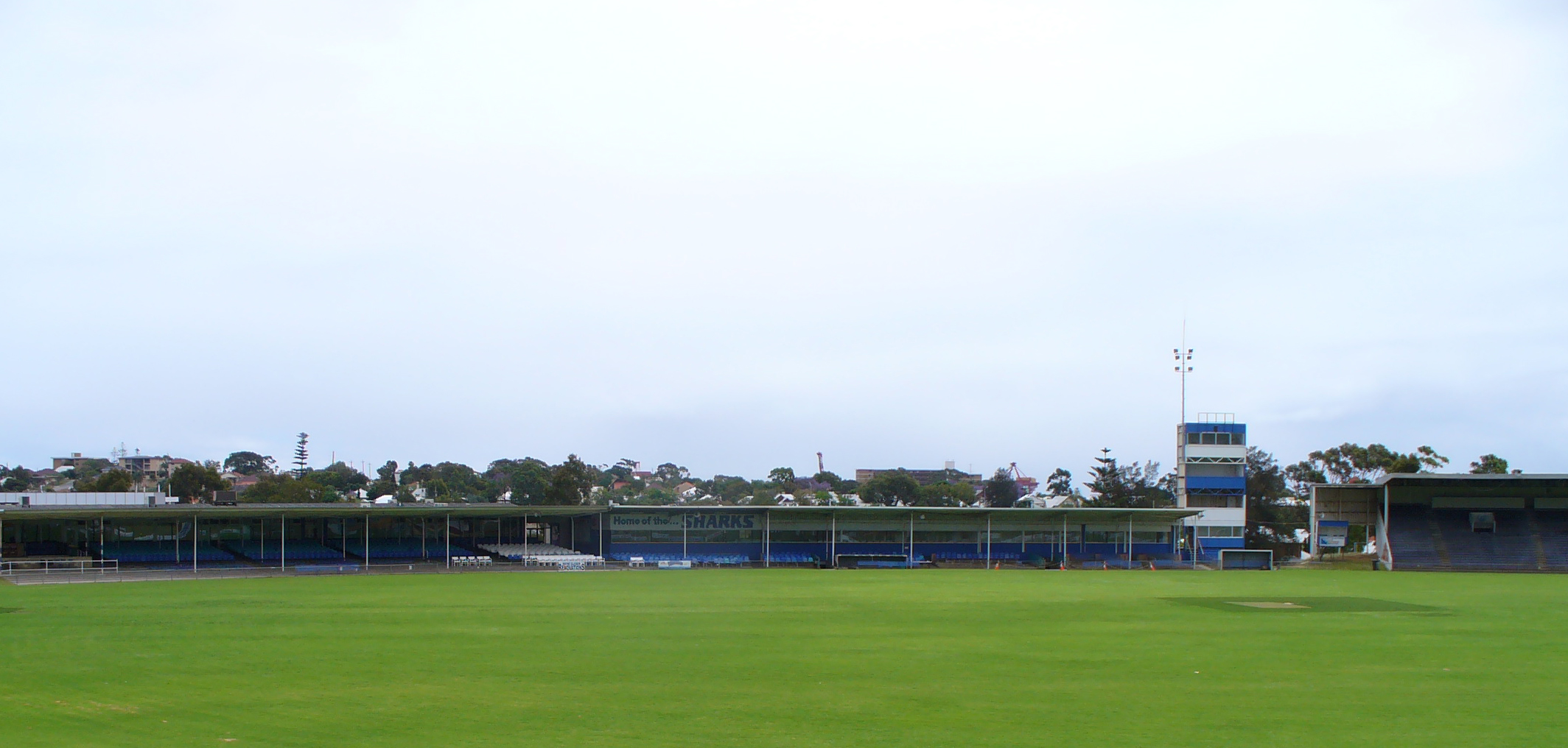 Cropped image of the stands at East Fremantle Oval, taken from the eastern bank.